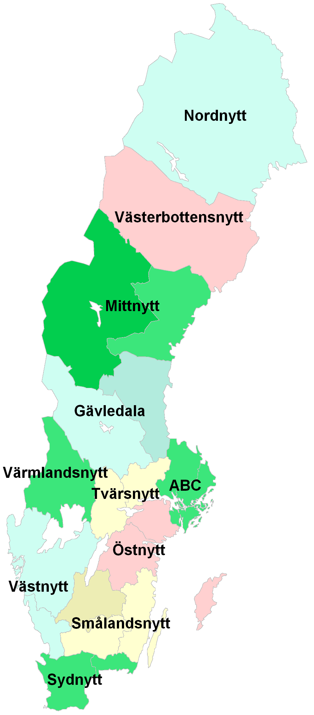 The news regions of Sveriges Television. Selfmade.